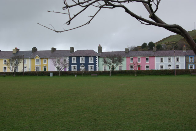 Alban Square, Aberaeron Looking across to the east side of the square showing the multi-coloured houses characteristic of the town. The centre of the square is laid out as a football pitch.